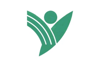 Flag of Yanagawa Fukuoka